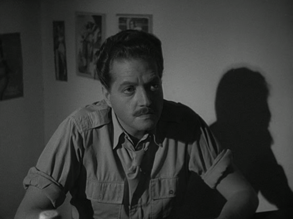 Actor Michael Tor in a screenshot from Napoli milionaria (1950)